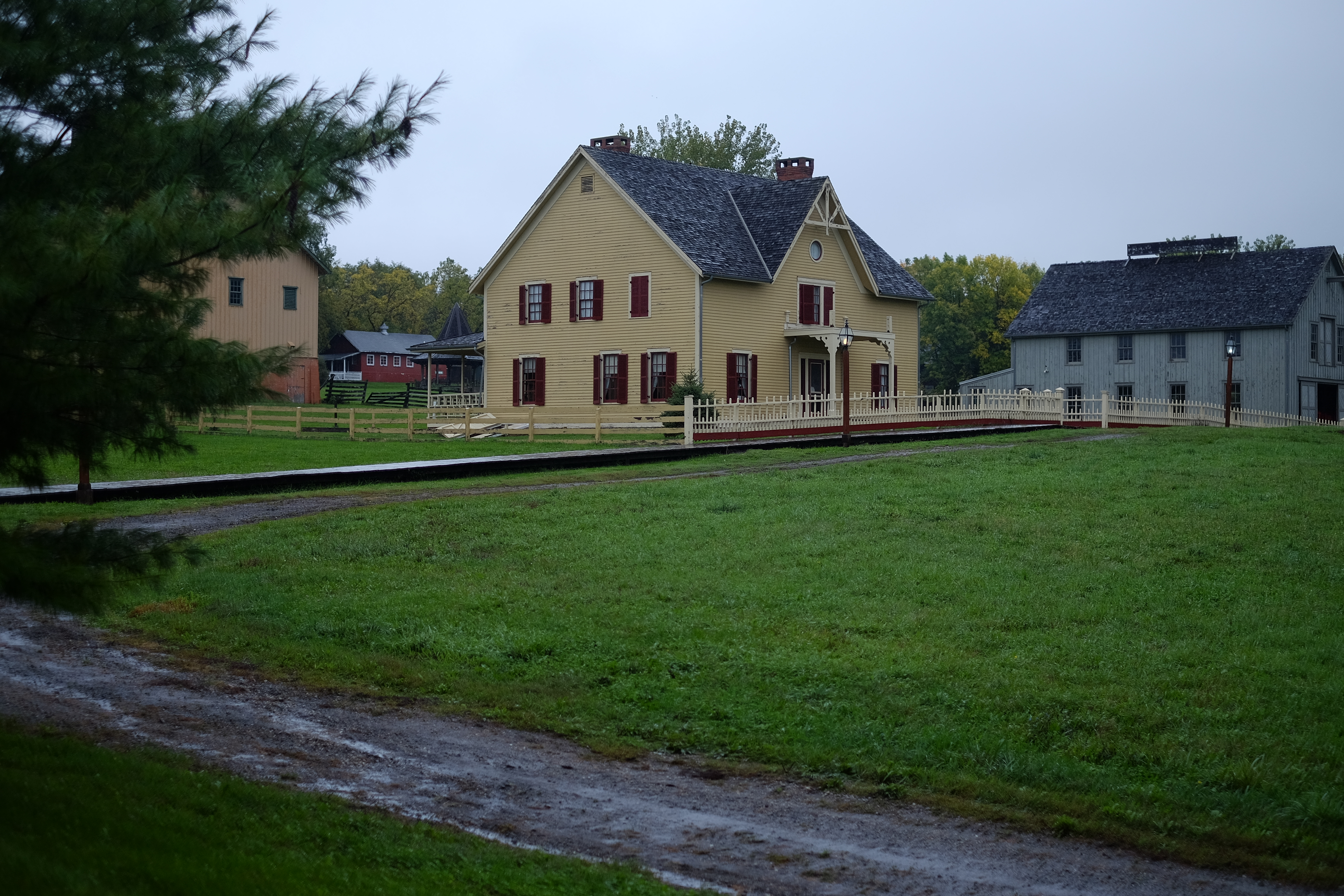 Living History Farms open-air museum, Urbandale, Iowa, US.